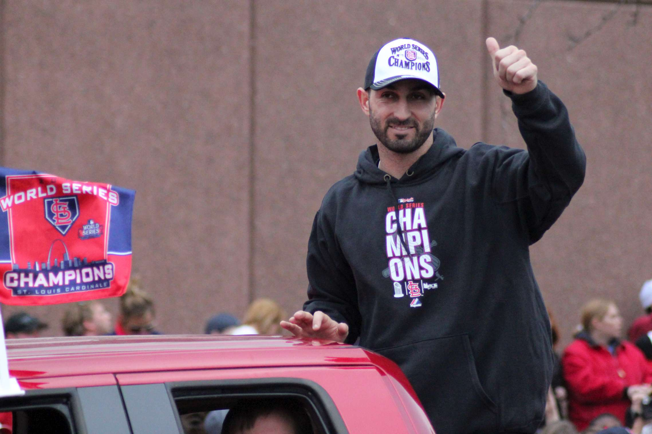 Daniel Descalso during the 2011 World Series victory parade Saint Louis Oct 30, 2011.